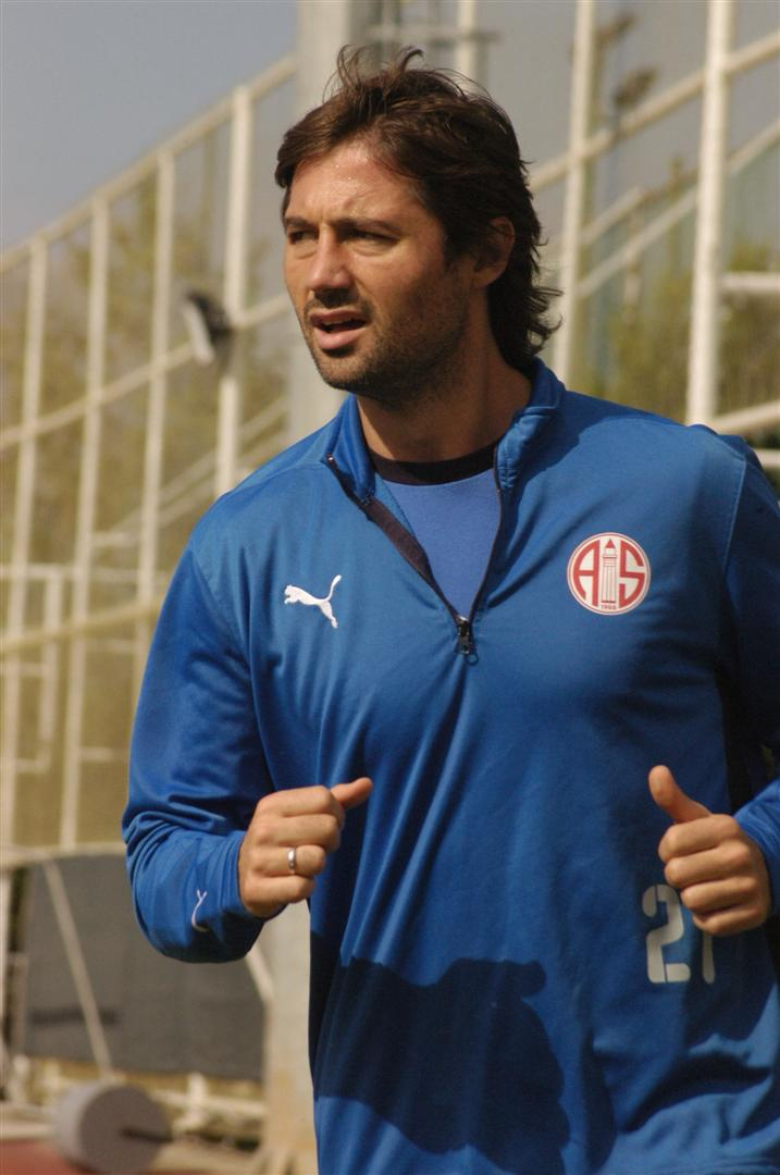 Radoslav Batak (#21) Antalyaspor takımında